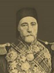 Premier ministre Mustapha Khaznadar (George Kalkias Stravelakis) de 1837 à 1873